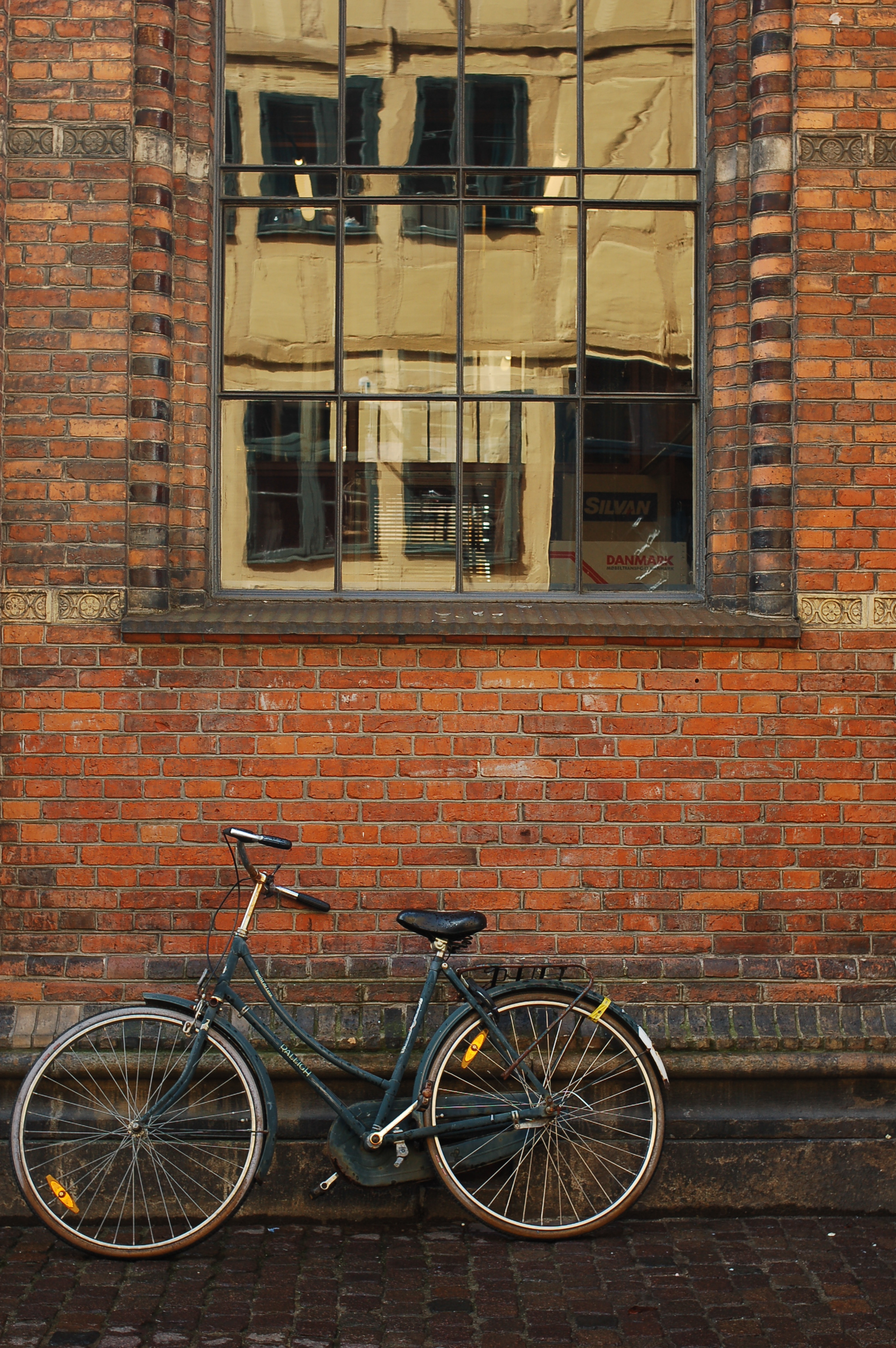 Streets of Copenhagen. Denmark, Northern Europe.